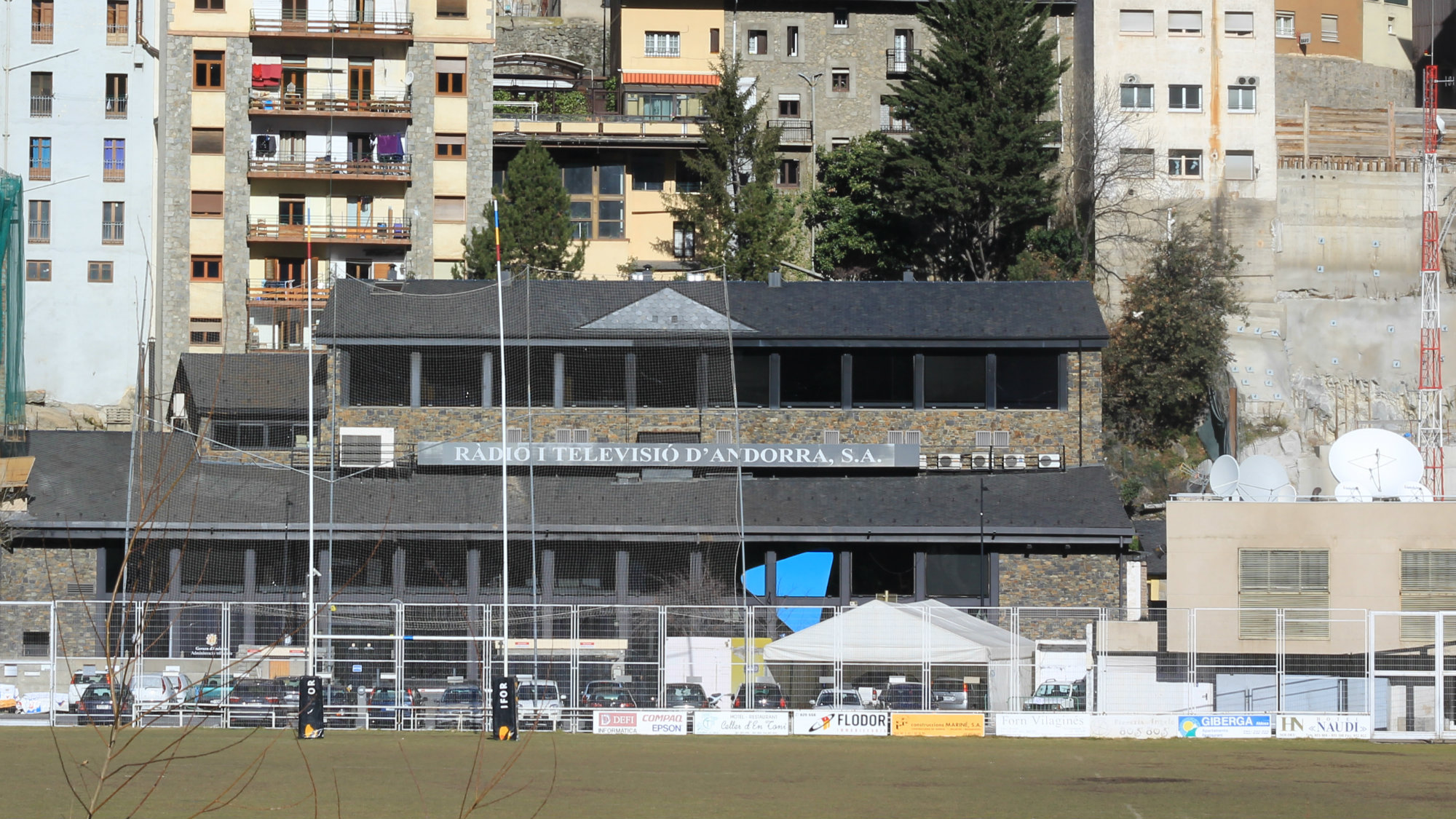 Facilities RTVA in Andorra la Vella